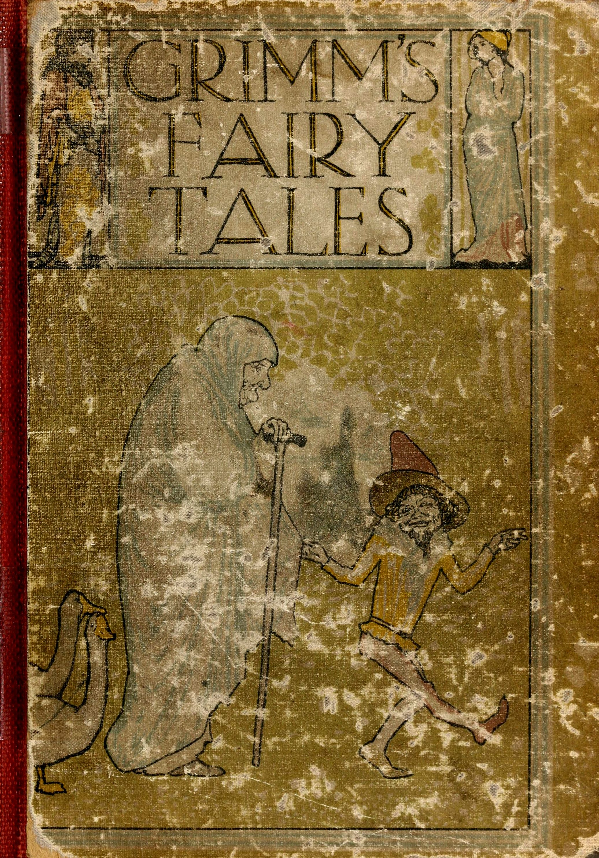 Grimm's Fairy Tales - Cover